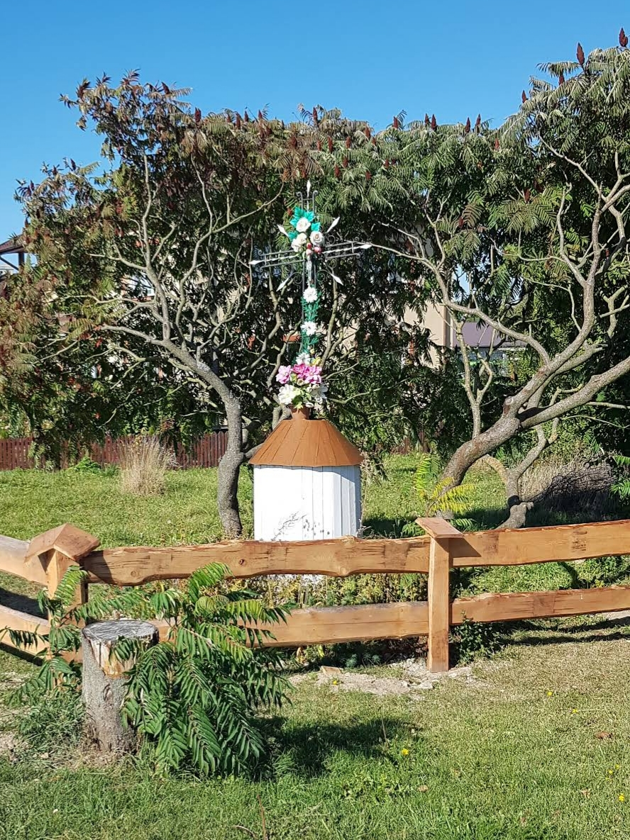 Crucifix in Rożki-Kolonia